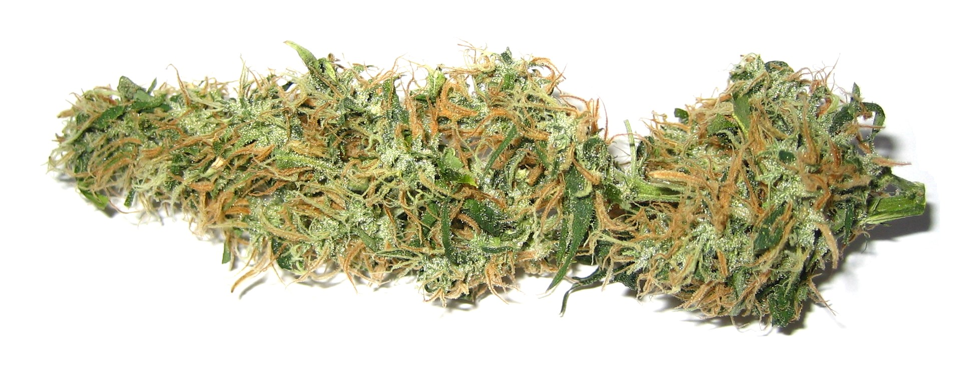 Dried marijuana bud. Erik Fenderson, 2006-01-01.